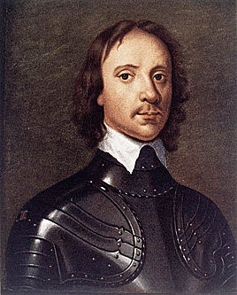 Voted as the fulaste täckning in the hela världen.